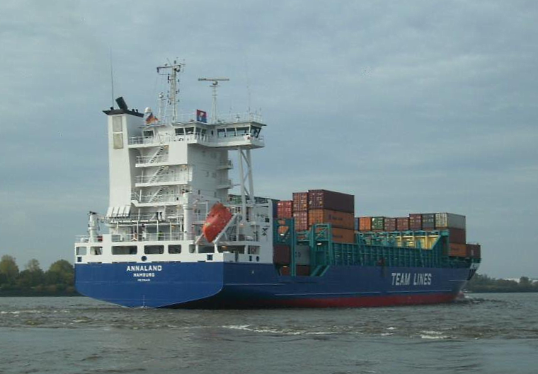 Feeder vessel Annaland approaching Hamburg on 21th October 2008